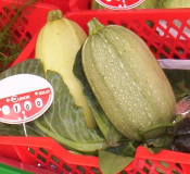 Detail from the file: File:Market Garden.jpg